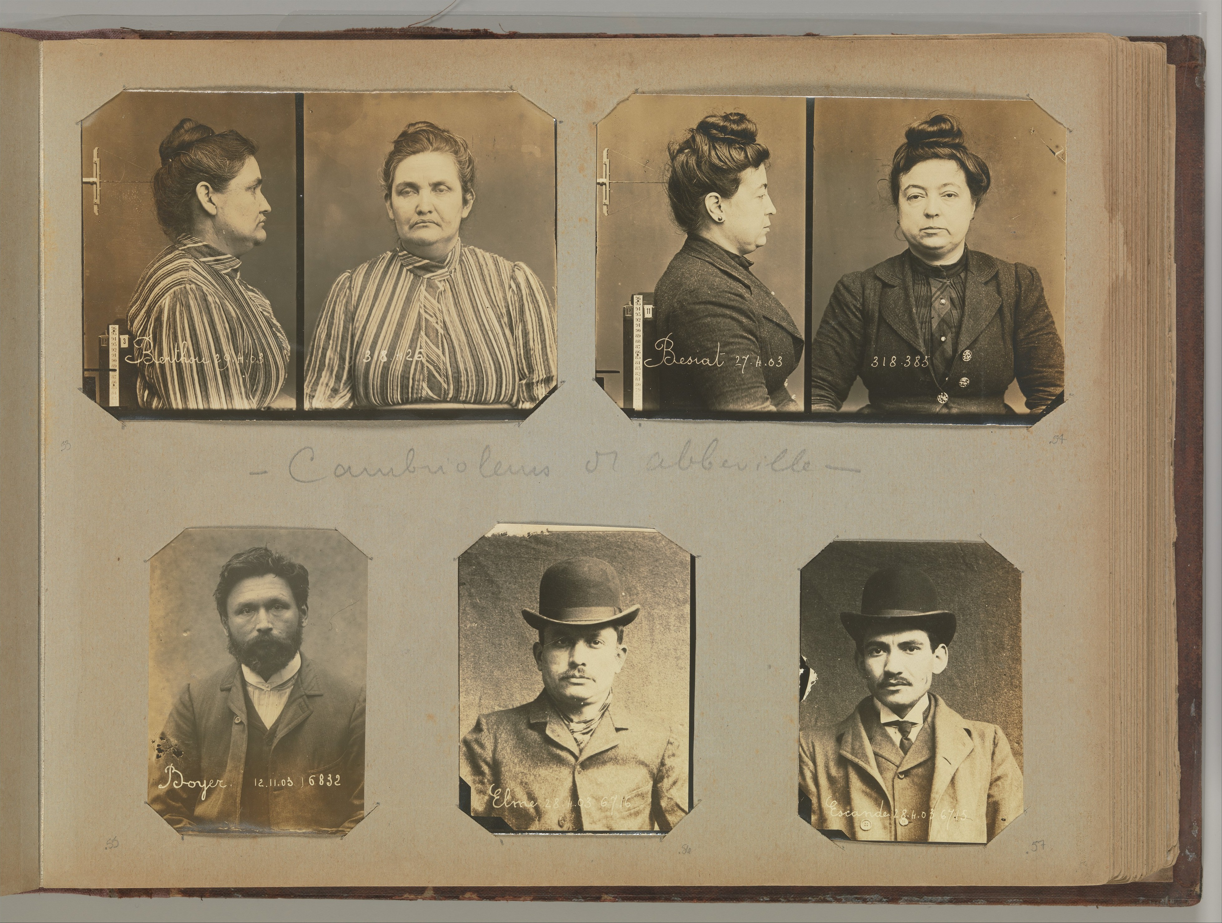 Alphonse Bertillon, the chief of criminal identification for the Paris police department, developed the mug shot format and other photographic procedures used by police to register criminals. Although the images in this extraordinary album of forensic photographs were made by or under the direction of Bertillon, it was probably assembled by a private investigator or secretary who worked at the Paris prefecture. Photographs of the pale bodies of murder victims are assembled with views of the rooms where the murders took place, close-ups of objects that served as clues, and mug shots of criminals and suspects. Made as part of an archive rather than as art, these postmortem portraits, recorded in the deadpan style of a police report, nonetheless retain an unsettling potency.